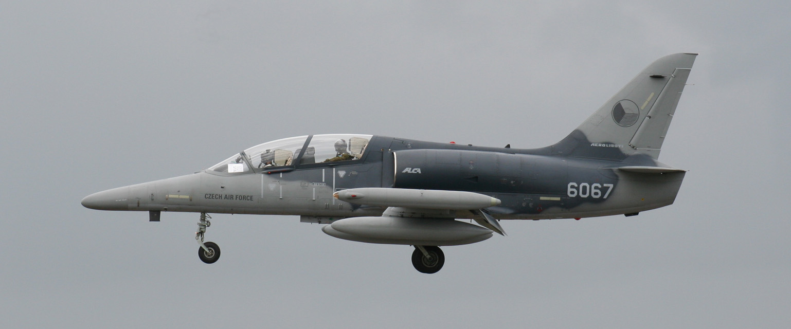 Aero L-159T-1 Alca Czech Republic Air Force 6067 / 12-067 C/N 156067